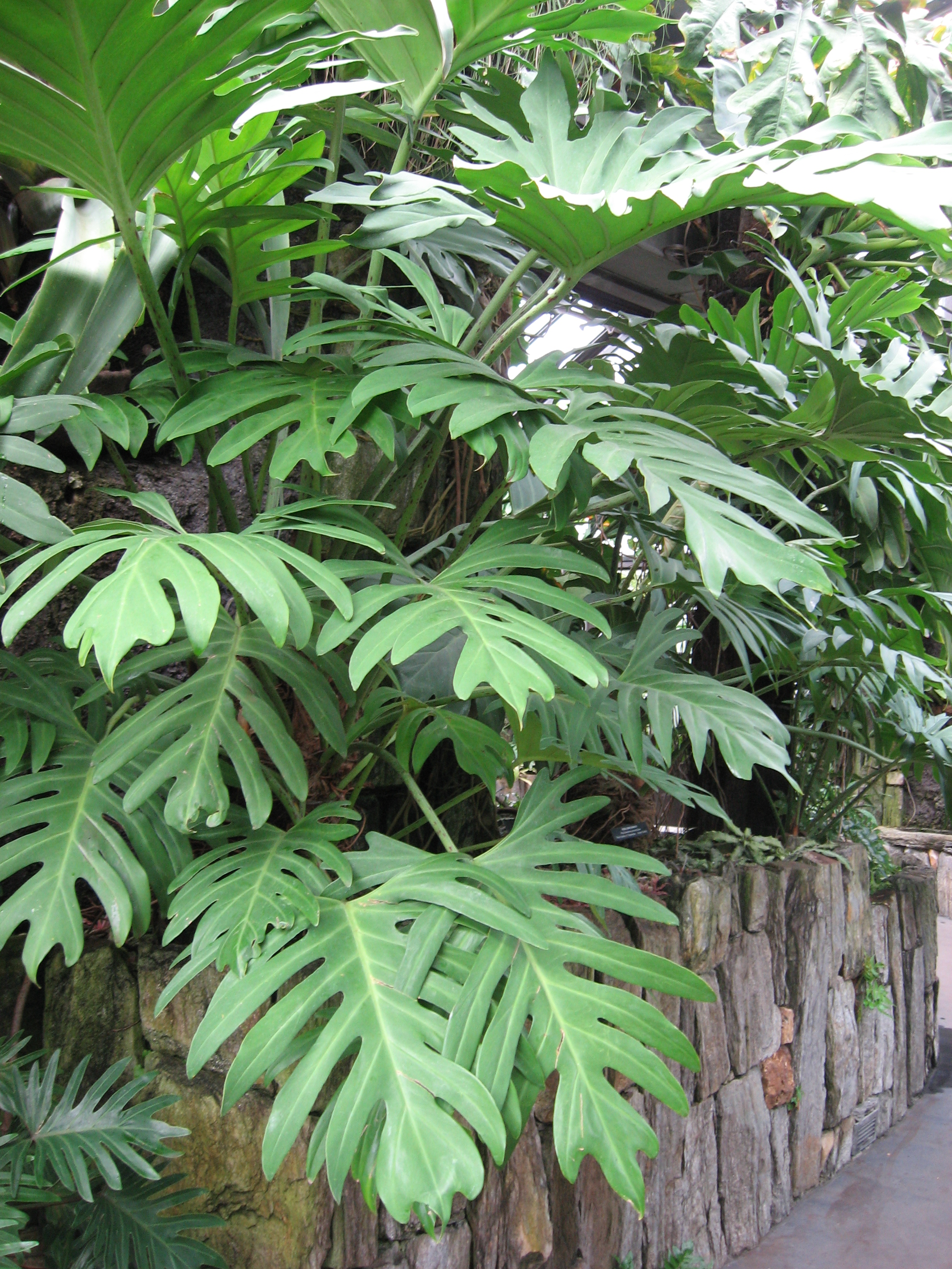 A picture of Philodendron pinnatifidum.